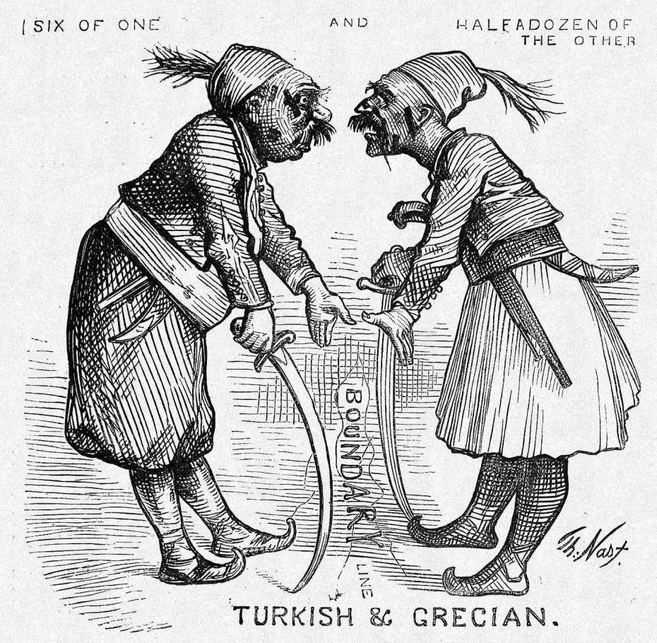 Caricature depicting a Turk and a Greek arguing over post-World War I border and population changes.